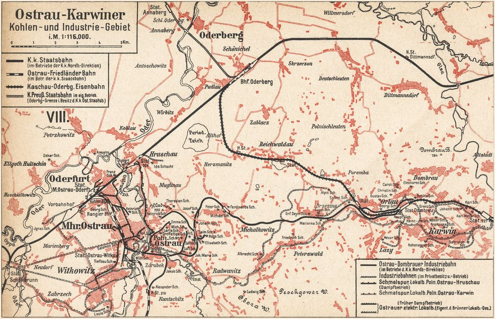 Karwina-Ostrava Coal Mining Area around the year 1900